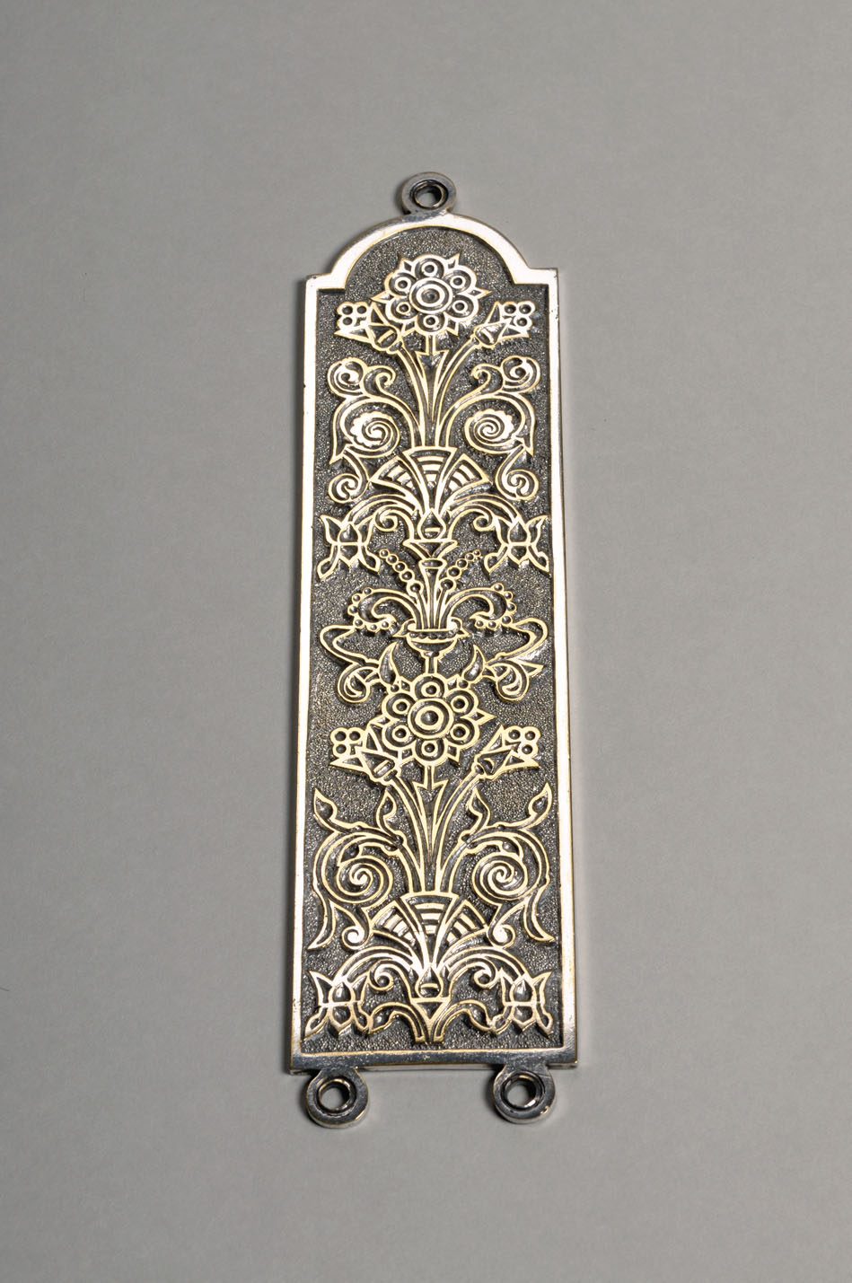 Fingerplate made by Francis Skidmore, c 1845 - 1870. In the collections of the Herbert Art Gallery & Museum, Coventry.